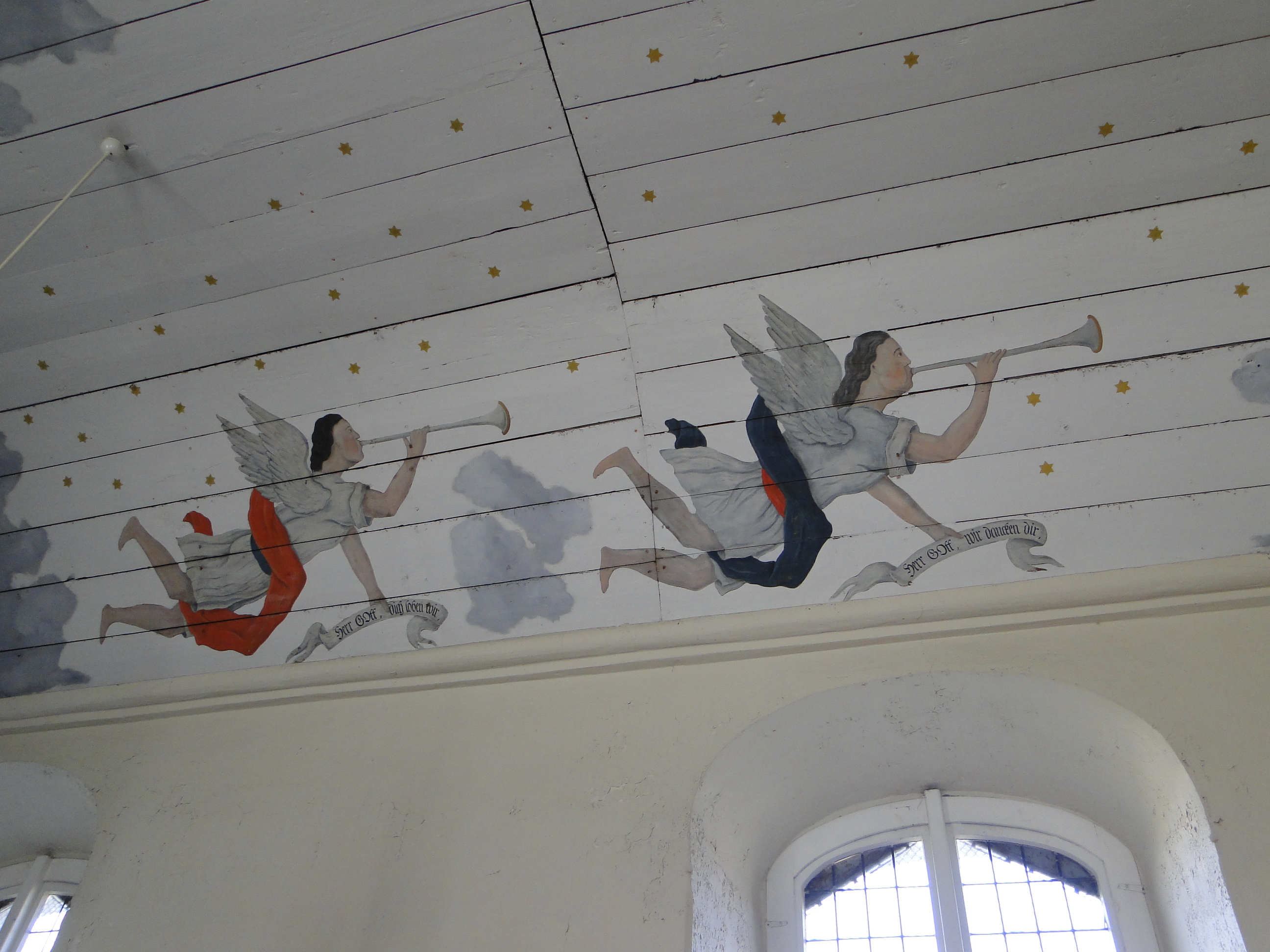 Church in Diemitz, disctrict Mecklenburg-Strelitz, Mecklenburg-Vorpommern, Germany